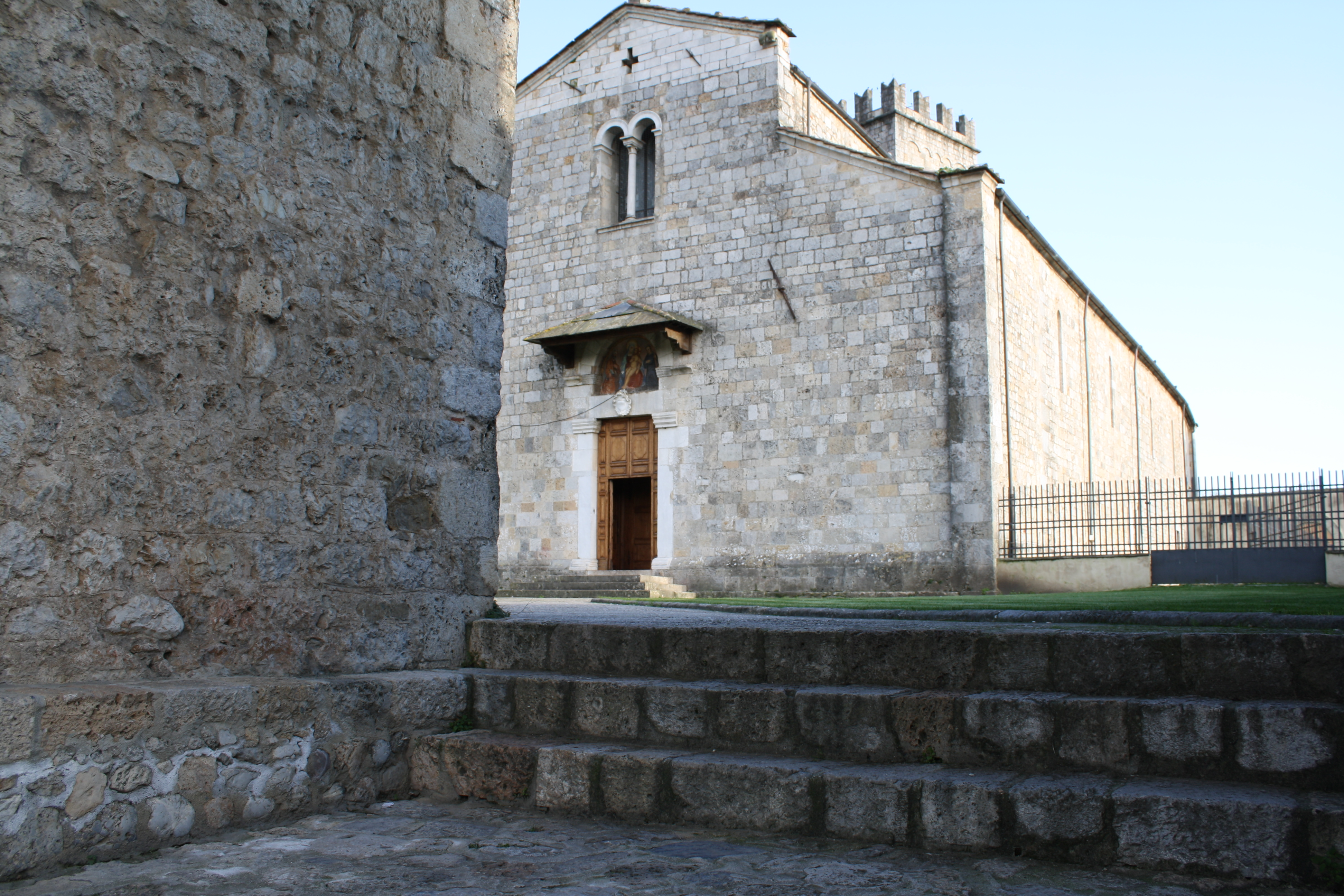 Chiesa Badia, Italy. Camaiore.